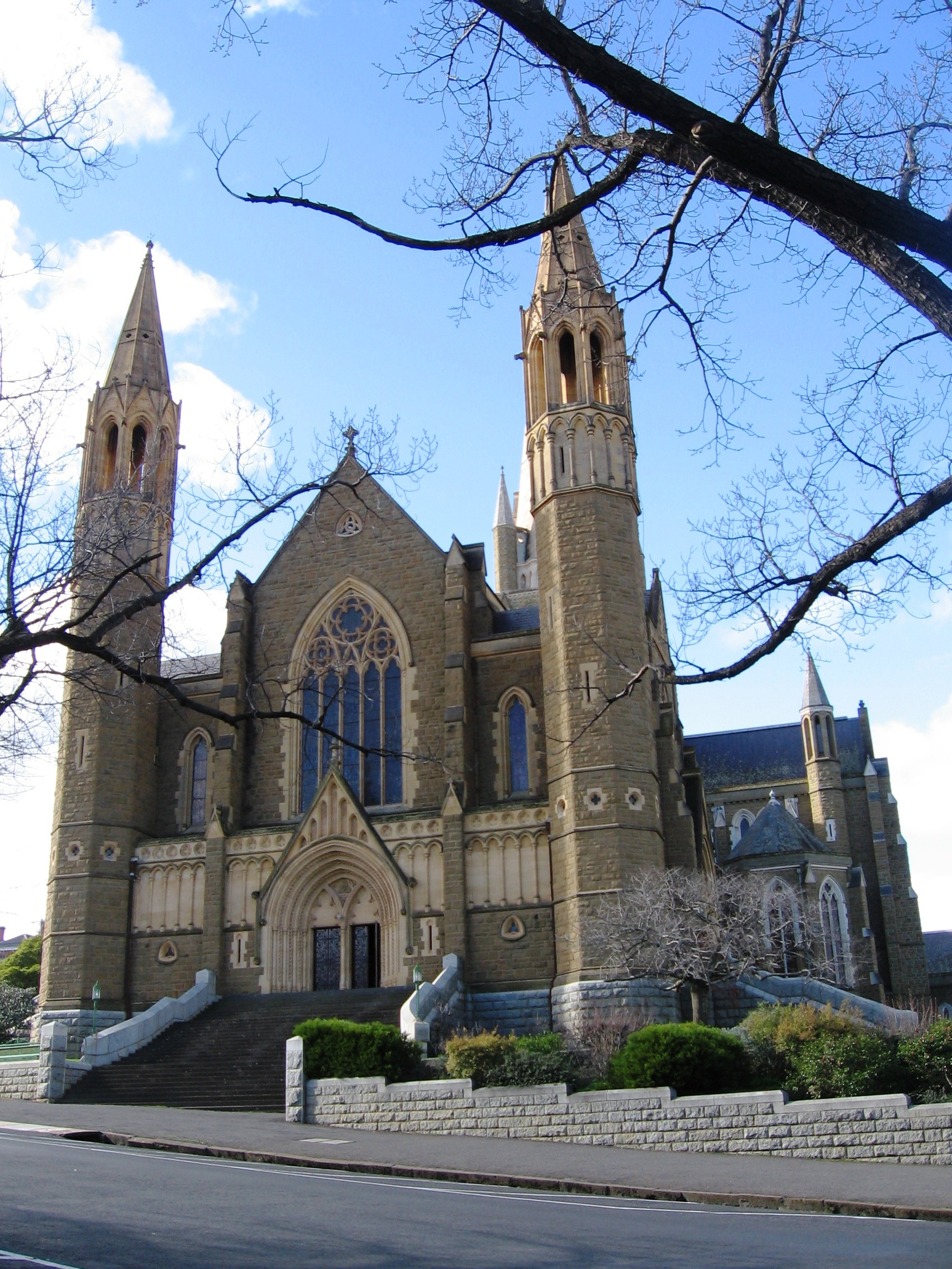 Roman Catholic Cathedral of the Diocese of Sandhurst in Bendigo, Victoria